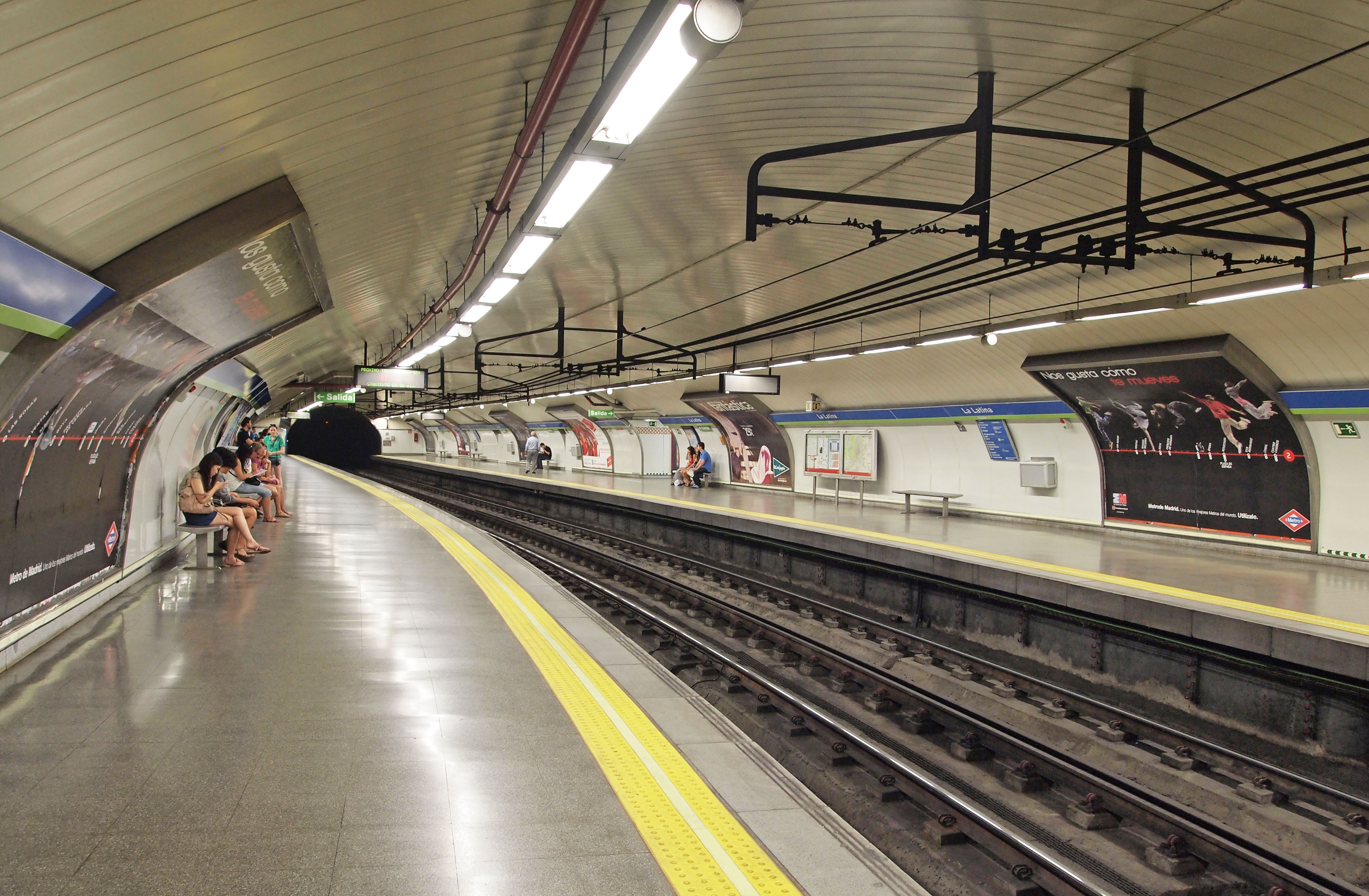 Metro station La Latina in Madrid. This photograph was taken with a Olympus E-PL1.